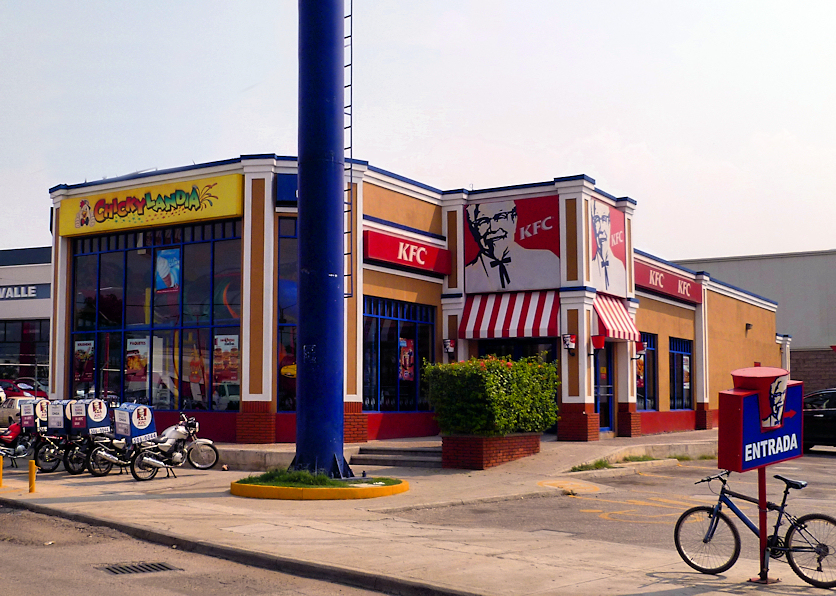 A KFC restaurant in Oaxaca, Mexico. This photo may incorporate a commercial logo or signage, but is free under Mexican Laws governing freedom of panorama - See COM:CRT/Mexico#Freedom of panorama.